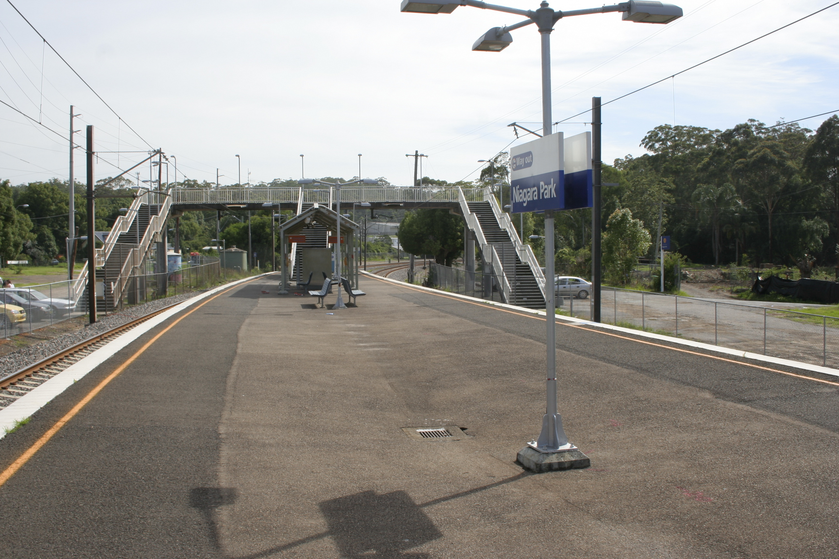 Niagara Park railway station